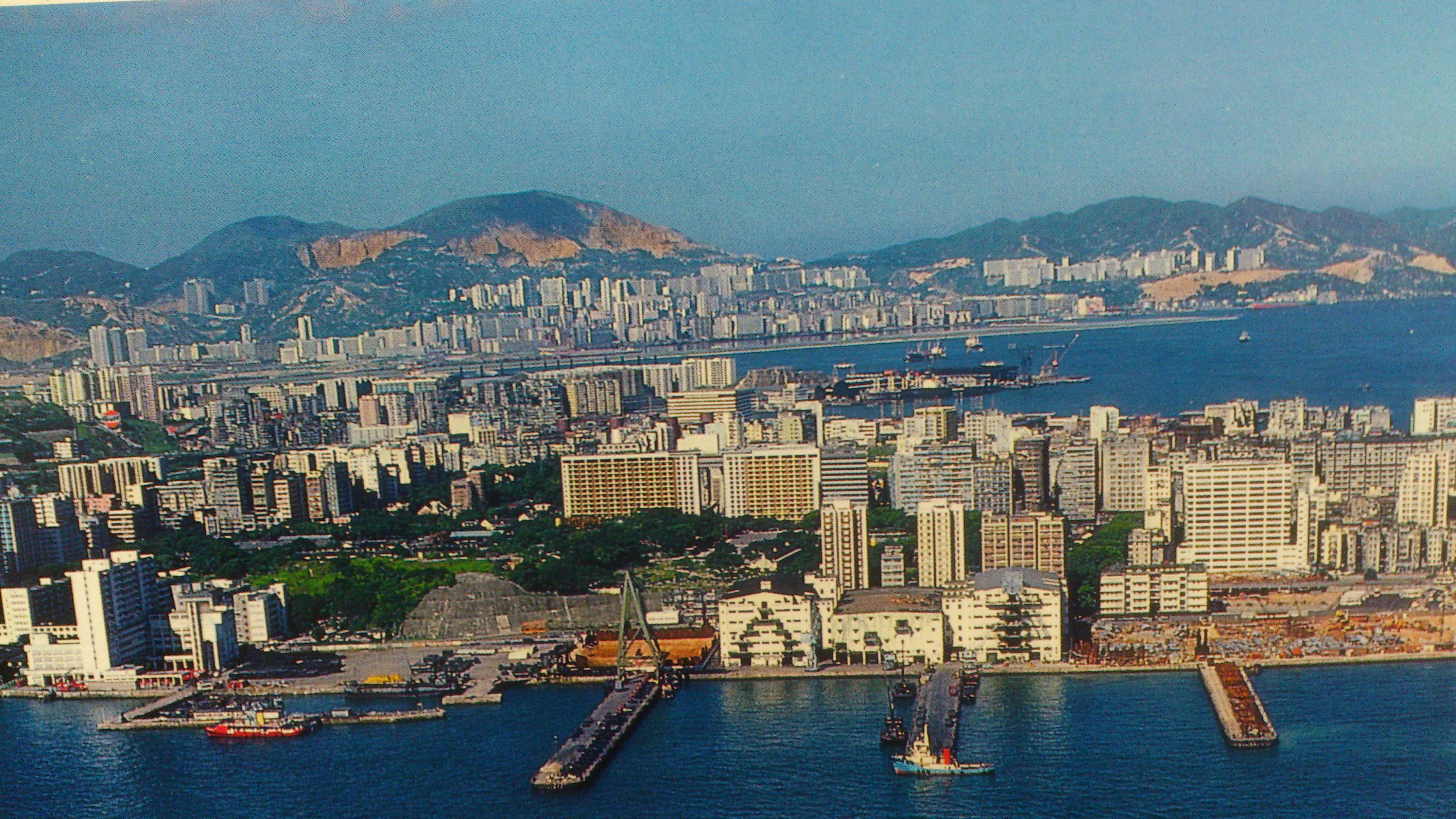 Historical aerial view of Tsim Sha Tsui, Hong Kong